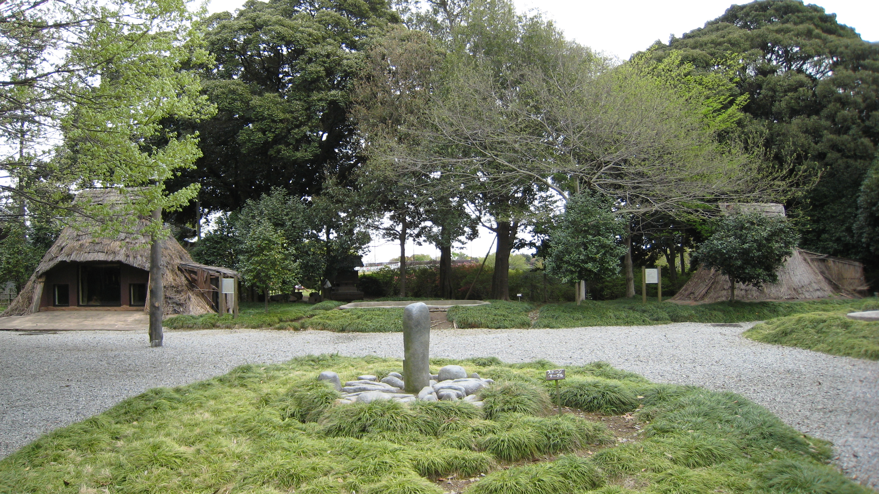 Jomon mura(ancient village) ,Tatebayashi city,Gunma,Japan